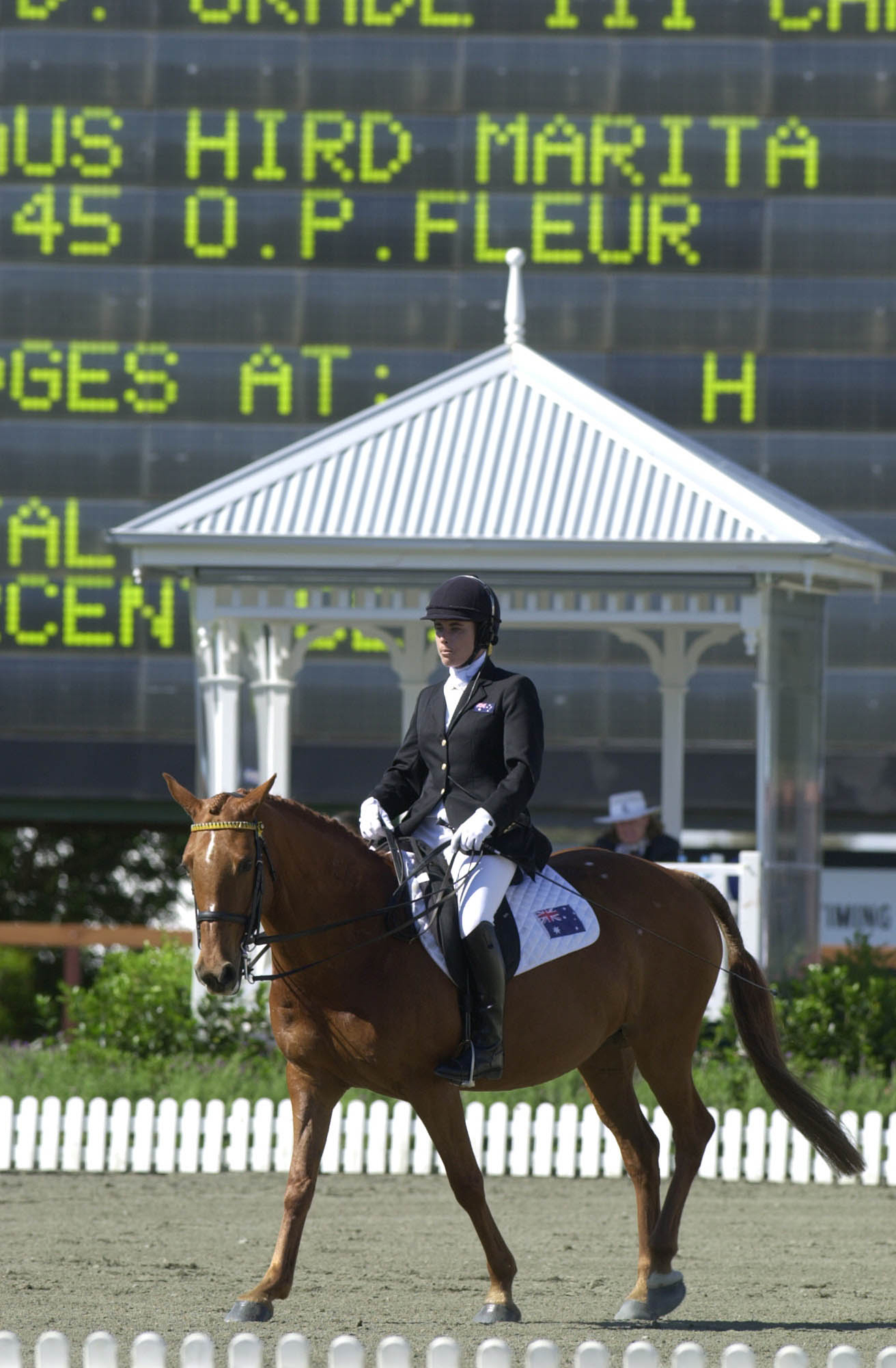 Action shot of Australian equestrian Marita Hird at the 2000 Sydney Paralympic Games Individual Dressage Grade 3 competition. She is riding O.P. Fleur.